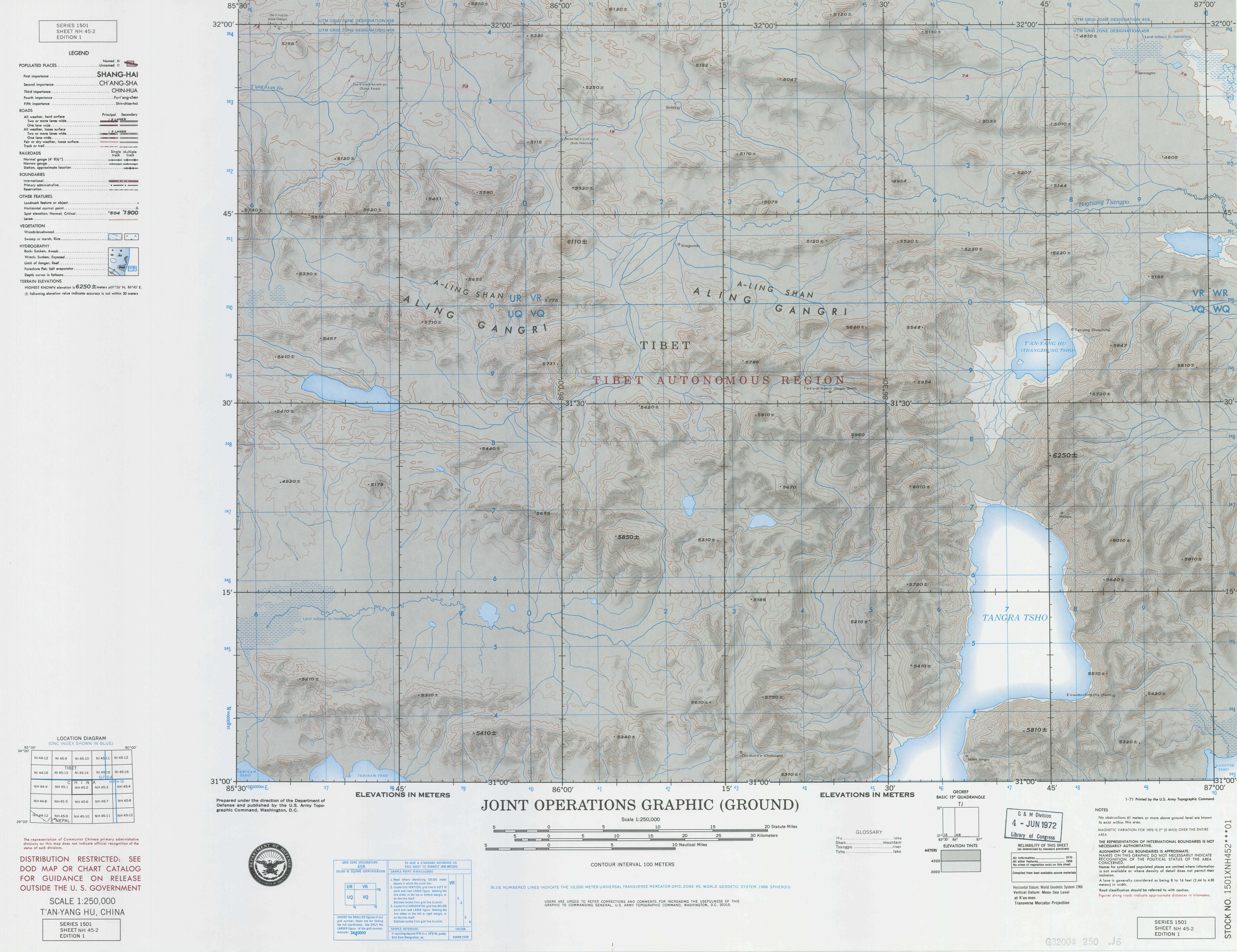 NH-45-2 Tanyang Hu China